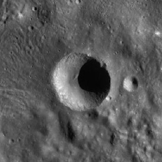 Shuleykin crater, on the far side of the moon. Mosaic of LRO WAC images. Aspect ratio adjusted from Mercator Projection.